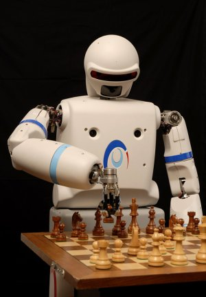 (Davide Faconti, Pal Technology